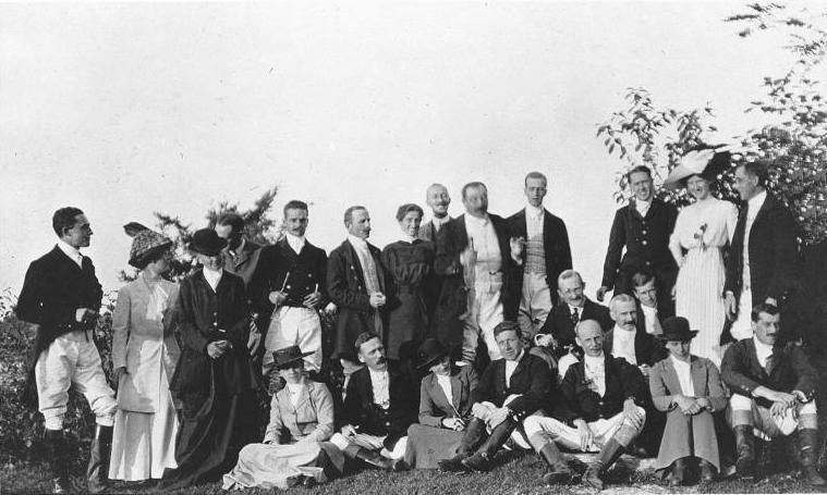 Photograph, Montreal Hunt Breakfast(?), at Grey Gables, Cartierville (home of Major Bertie Ogilvie) QC, about 1911, Anonymous, Silver salts on paper - Gelatin silver process - 7 x 10 cm